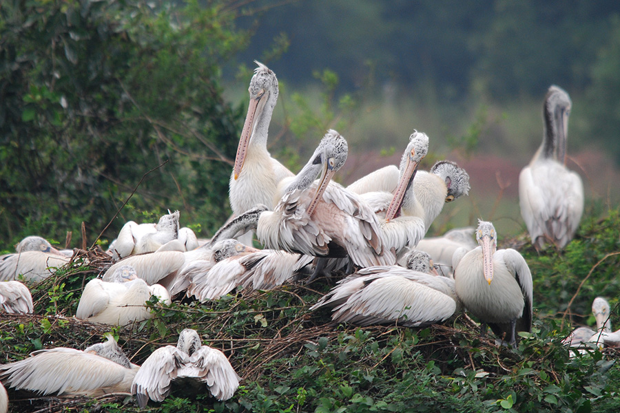 SpotBilledPelican-Nelapattu